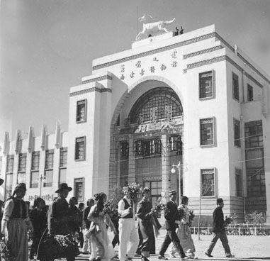 Inner Mongolia Museum in 1957 with people in the front celebrating the 10th anniversary of Inner Mongolia Autonomous Region.